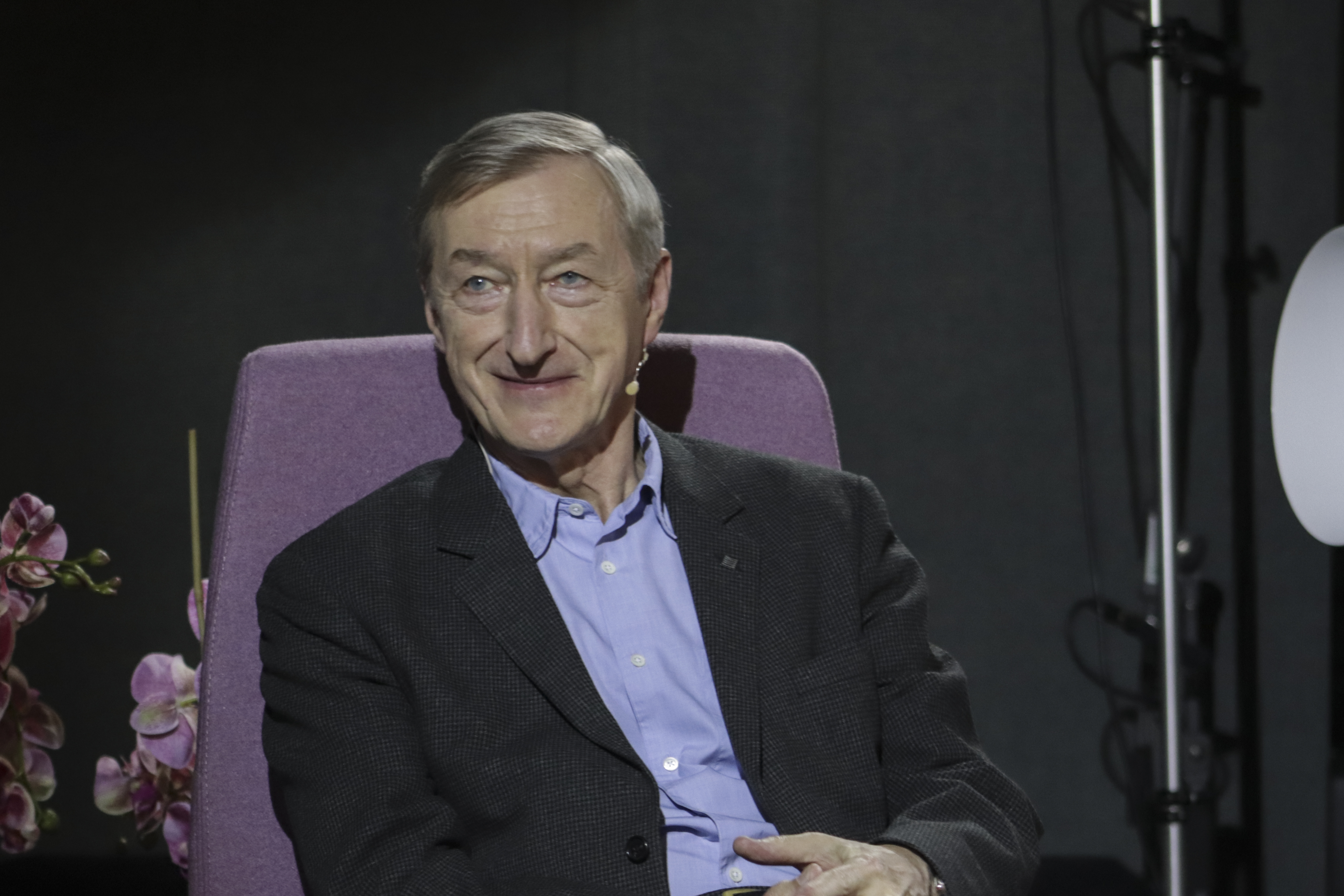 Julian Barnes at HeadRead in 2019, Tallinn, Estonia